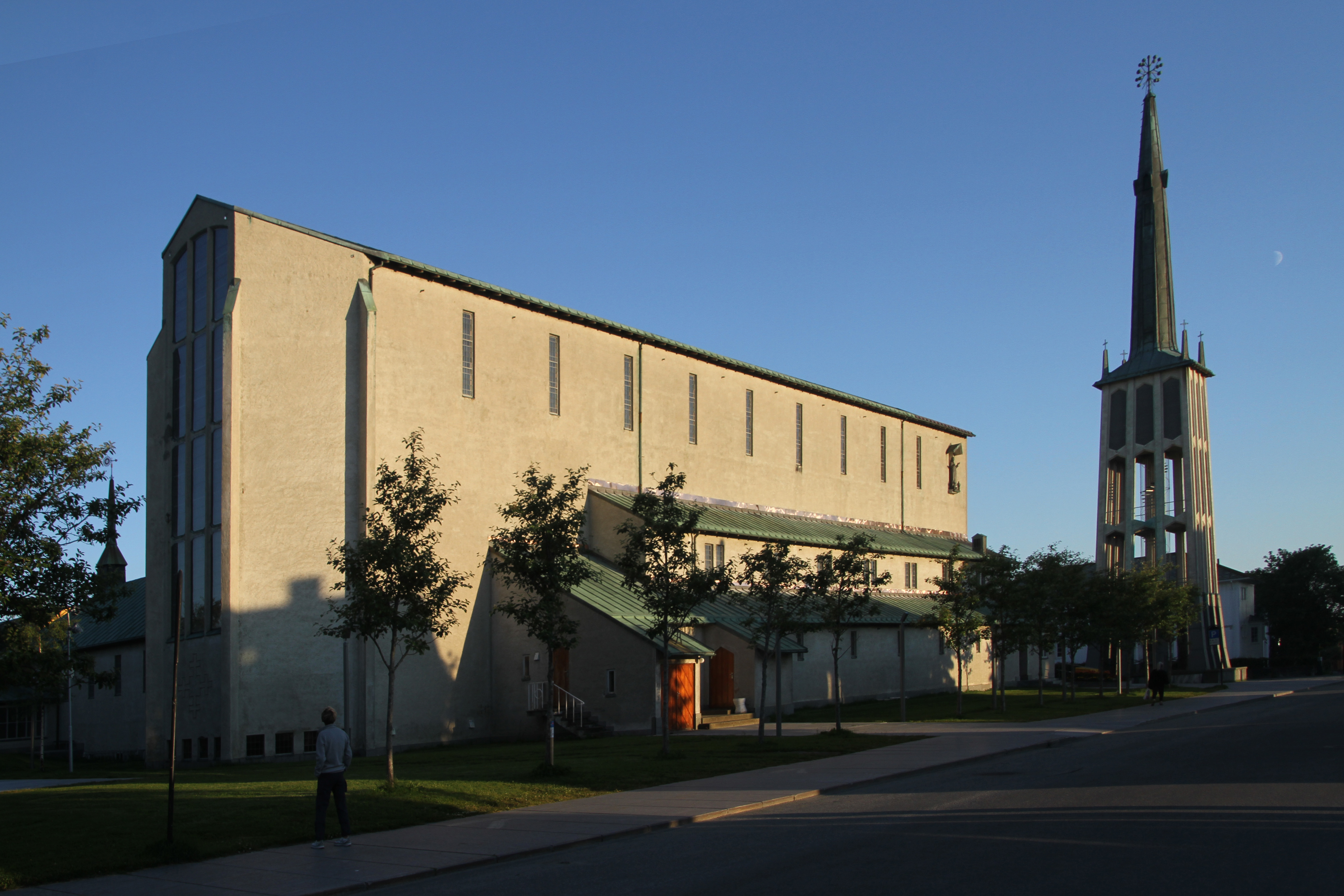 Bodø domkirke in Norway